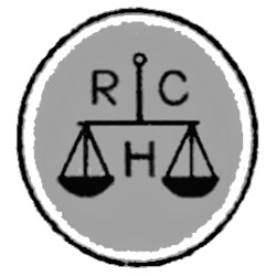 Company logo of pipe plant Coppel, Hilden/Germany, 1937